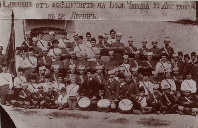 Photo album with photographs of Bulgarian detachment and events from the social and political life of the Bulgarian population in Bitola.